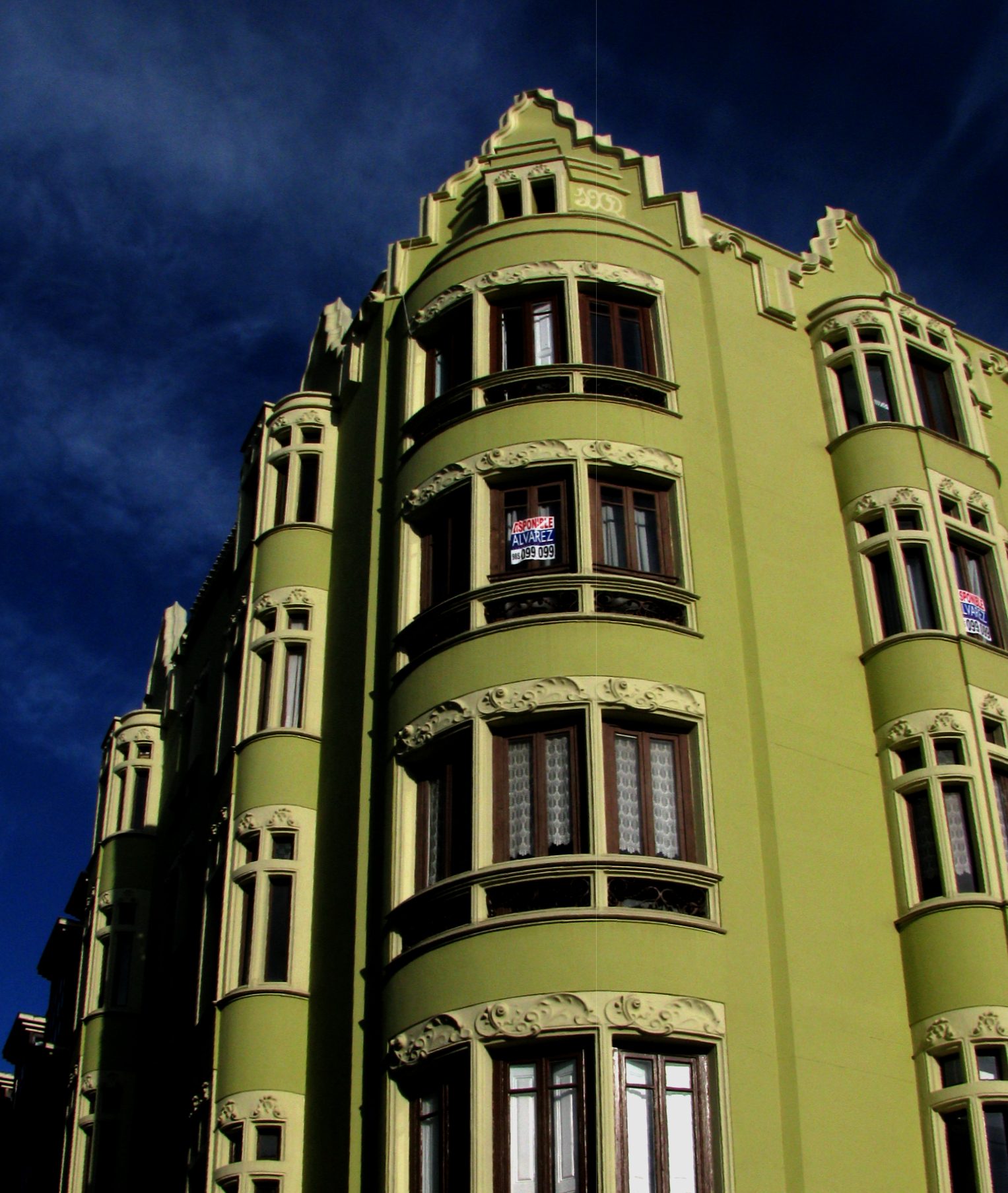 la Merced, 27 Gijón Josep Graner i Prat